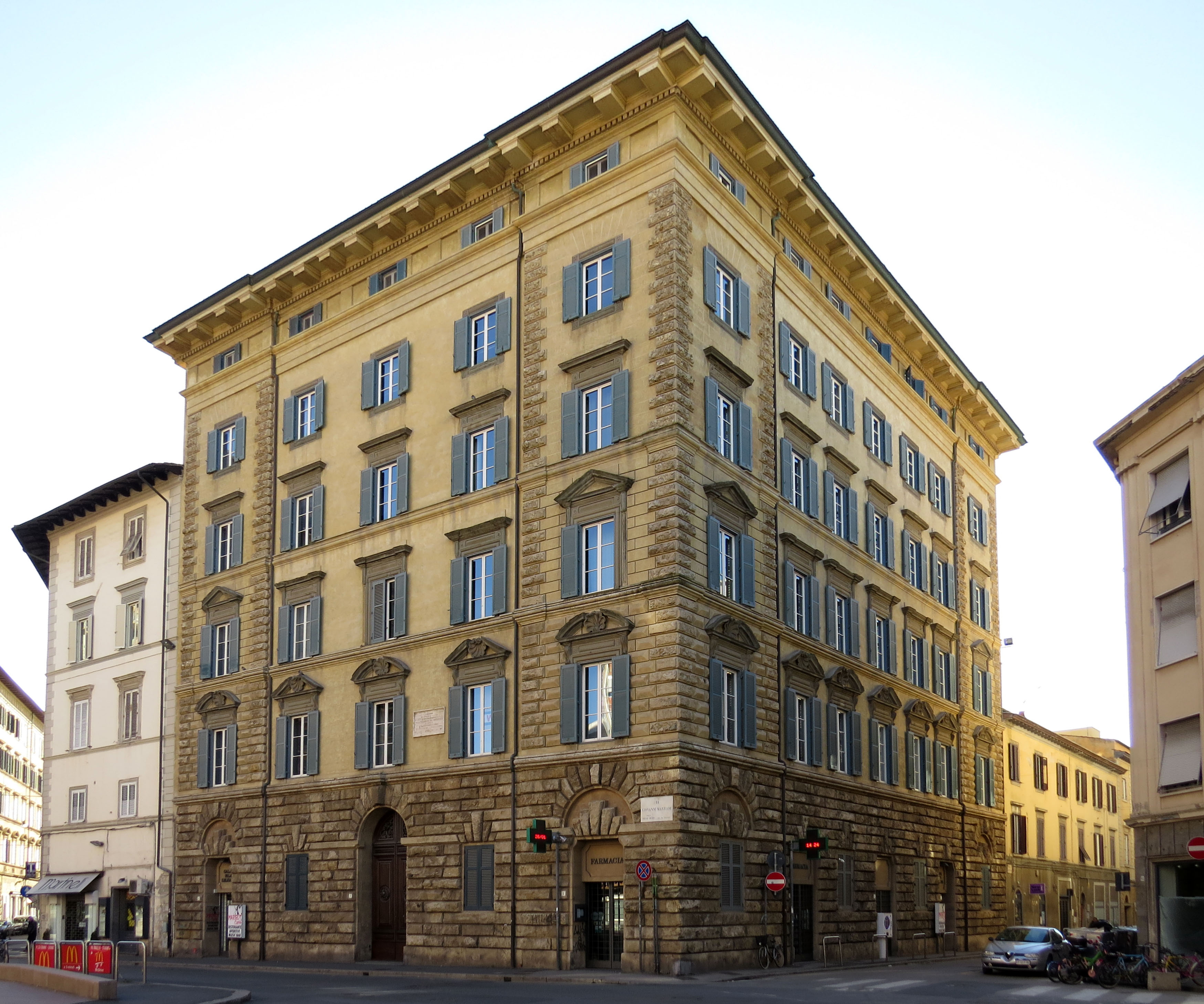 Palazzo Santa Elisabetta, piazza Attias, Livorno